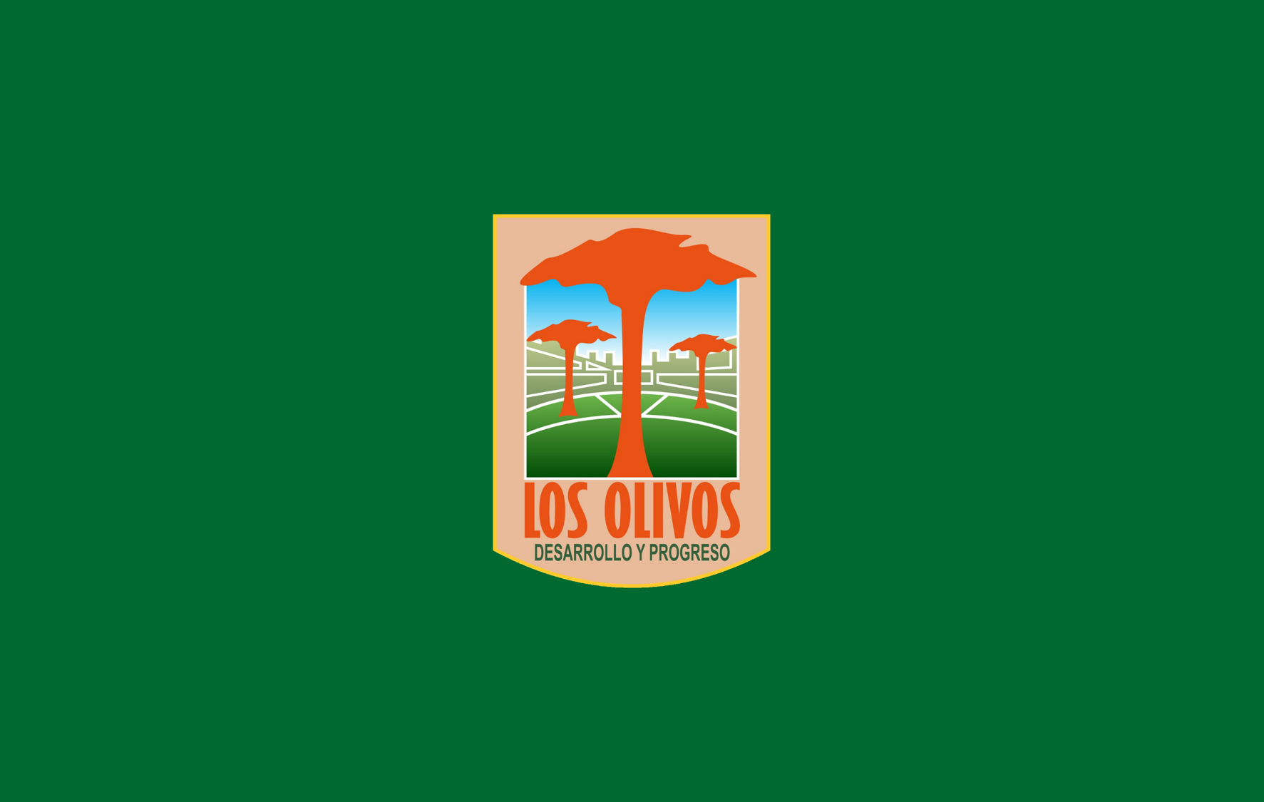 Bandera de Los Olivos. Lima norte